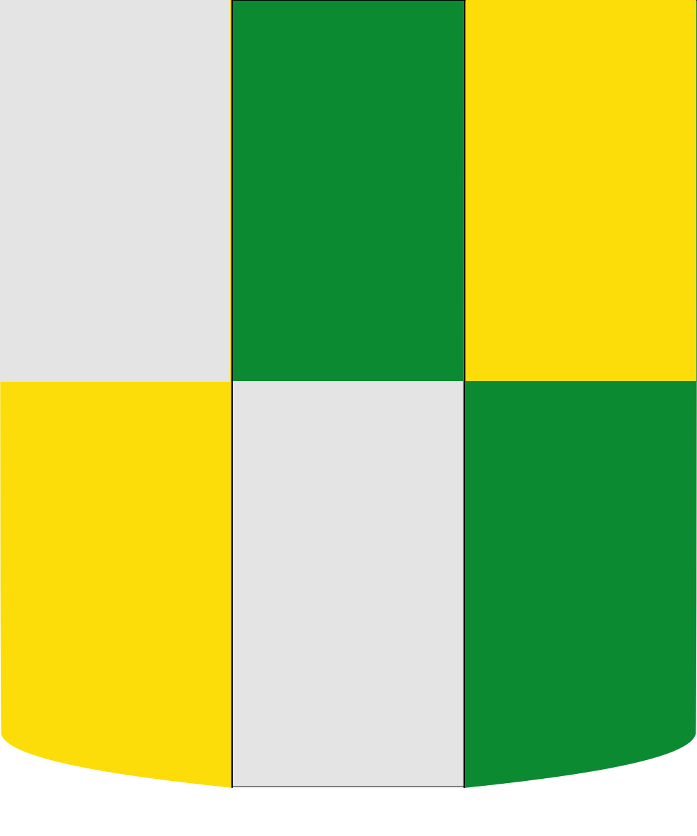 Menegato family shield